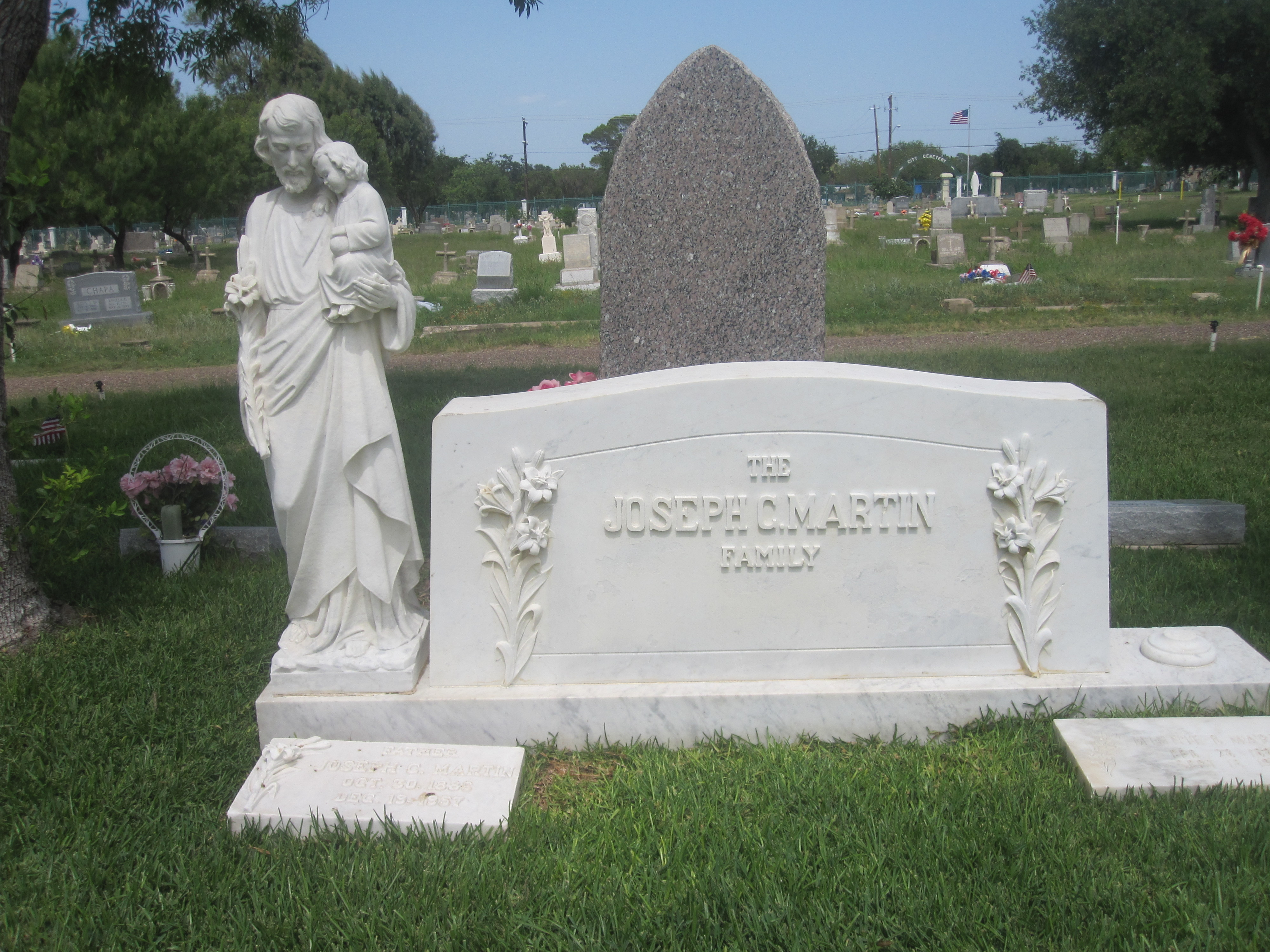 Photo of monument of Joseph C. Martin family in Laredo, TX.